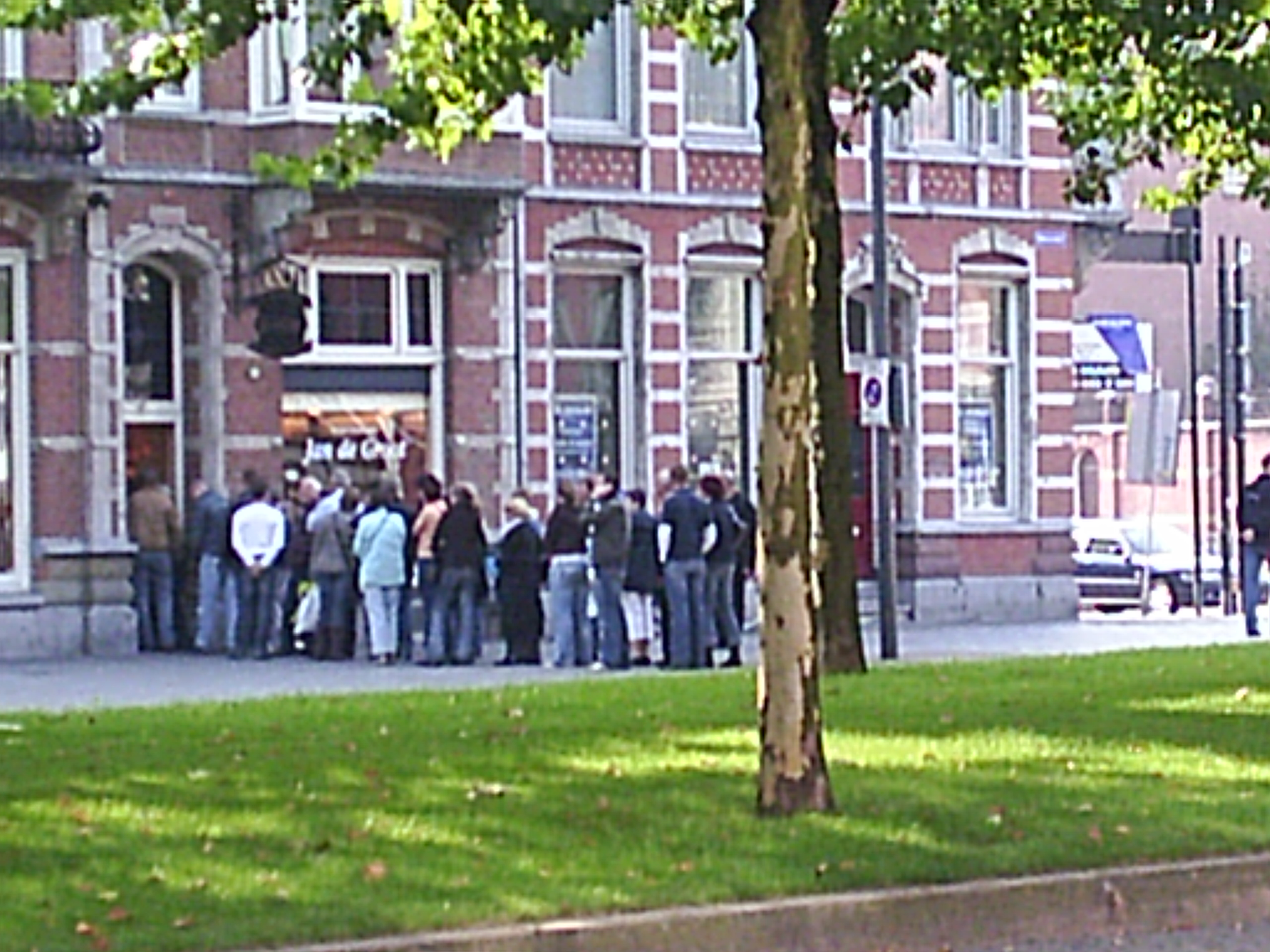 Queue at the entrance to a building.